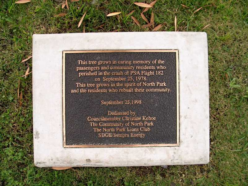 Plaque honoring victims of the crash of PSA Flight 182. Public domain image.